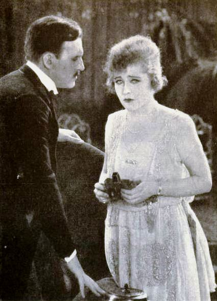 Still from the American drama film The Cradle (1922) with Ethel Clayton and Walter McGrail, on page 29 of the March 1922 Photoplay.